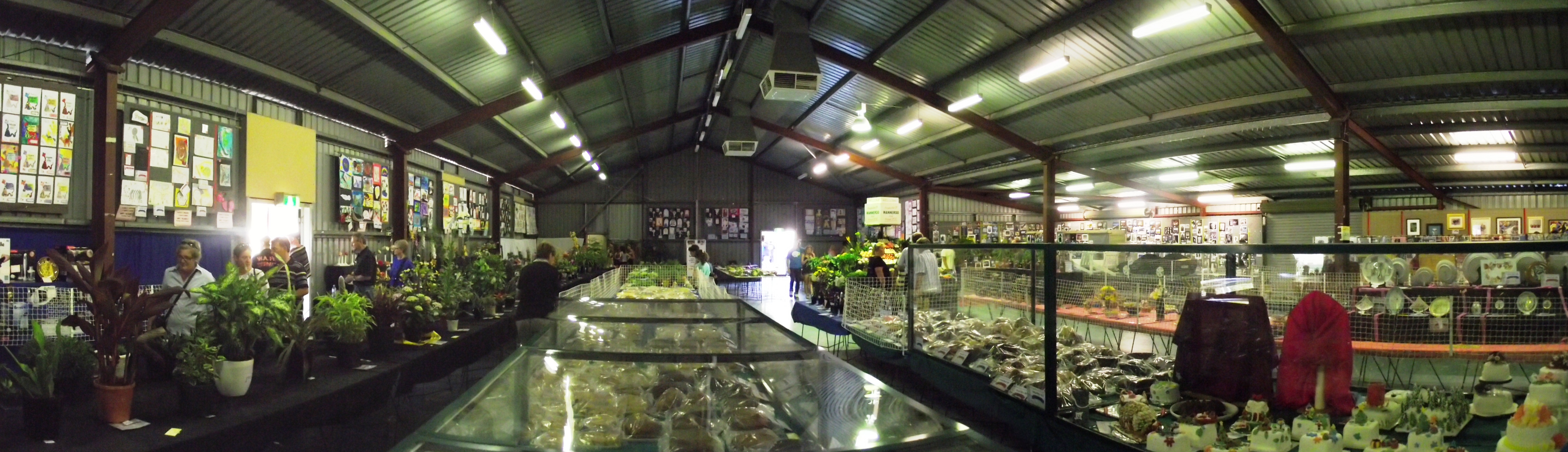 Panoramic View of the Margaret Cockman Pavilion During the 2010 Wanneroo Show